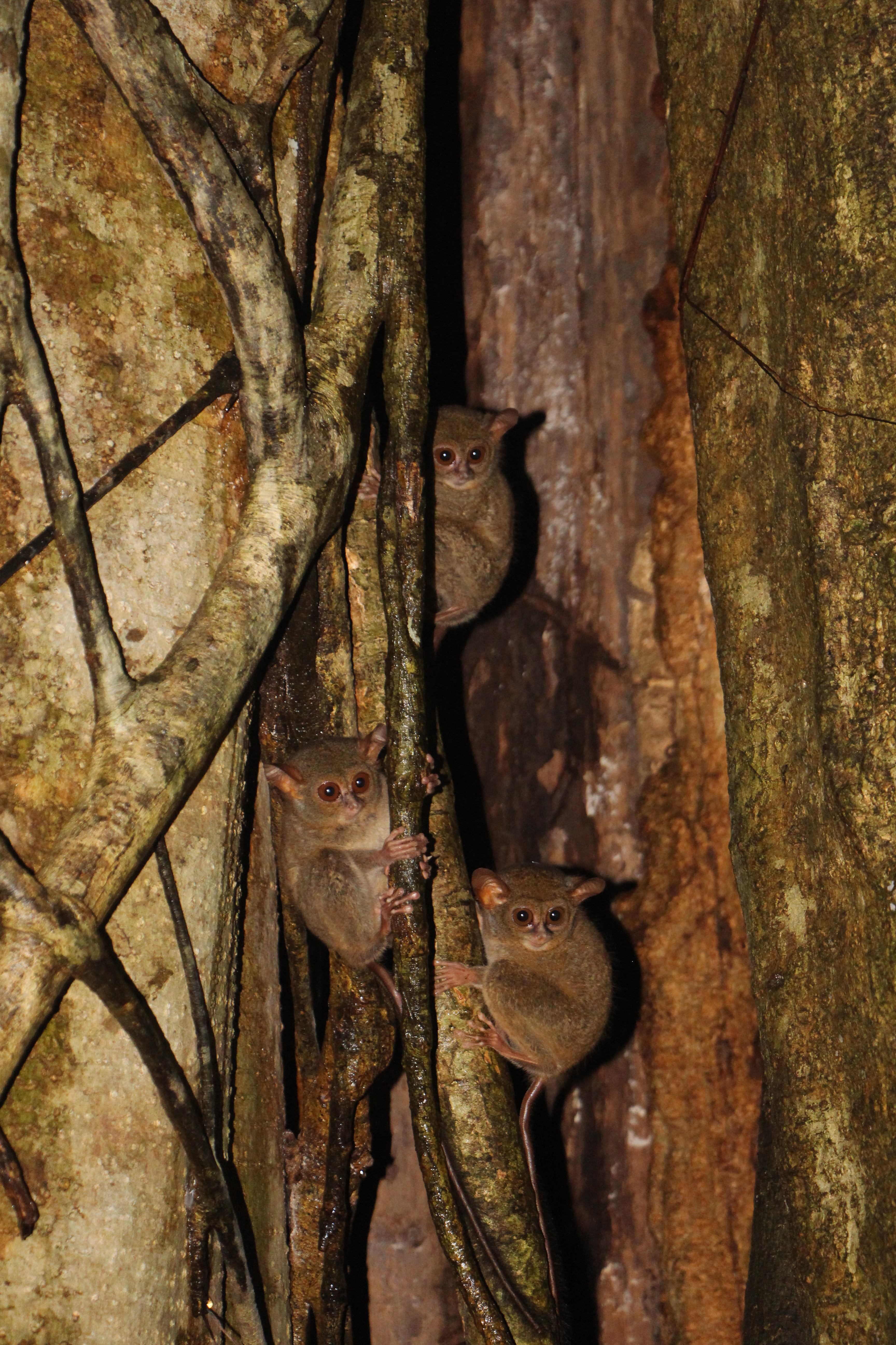 Group of sulawesi tarsius photographed in Tangkoko National Park